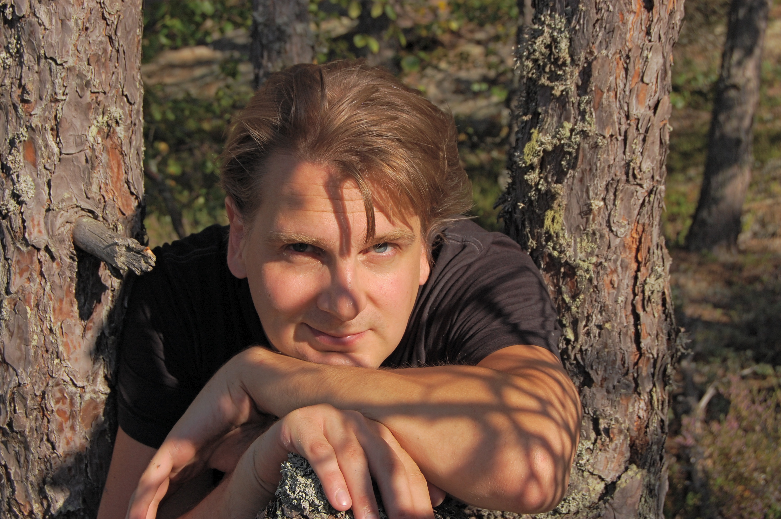 Portrait of the Finnish composer Aki Yli-Salomäki (b. 1972)